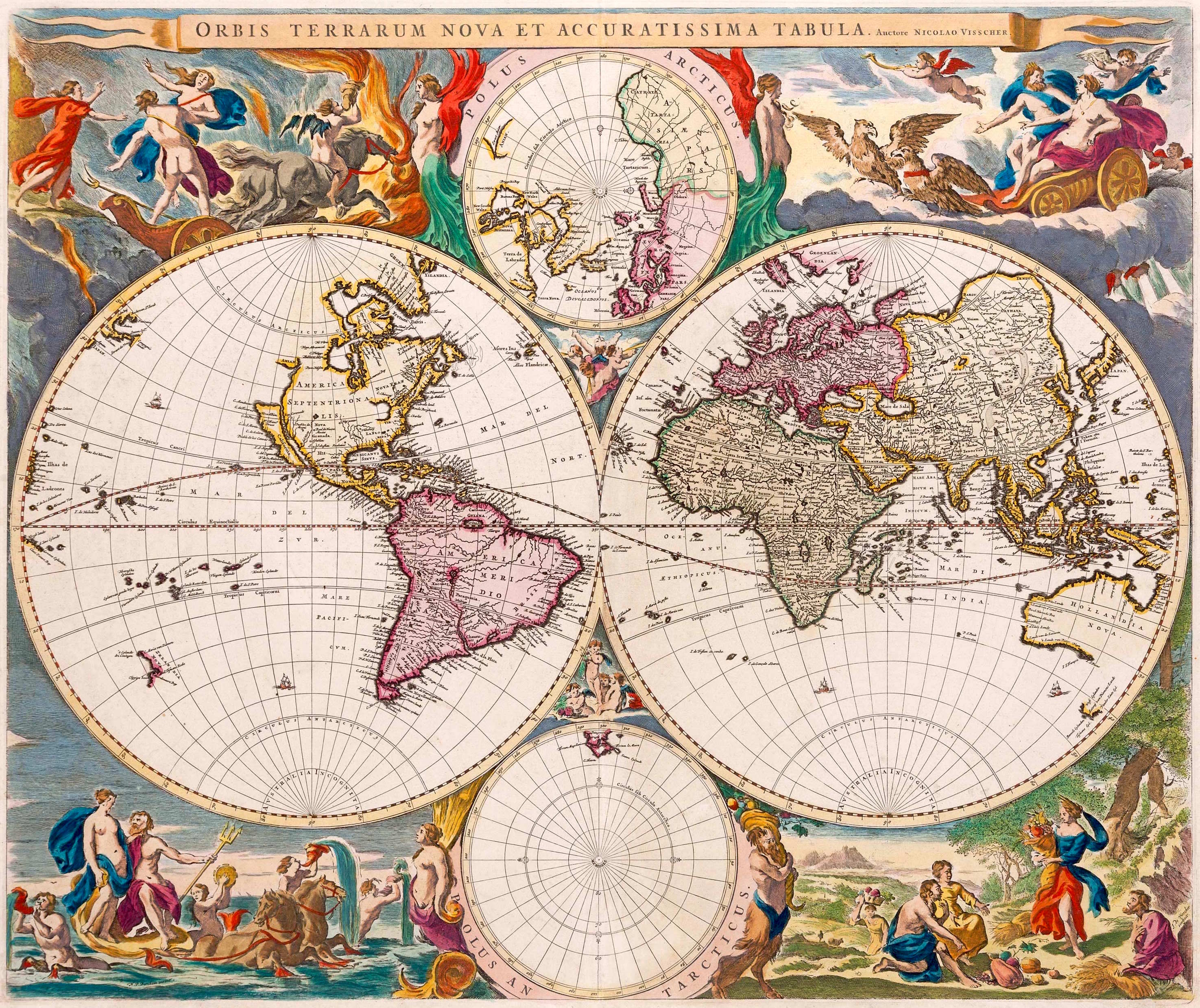 Engraved double-hemisphere map of the world by Nicolaes Visscher in 1658. Border decoration of mythological scenes, drawn by Nicolaes Berchem, showing Zeus, Neptune, Persephone and Demeter.